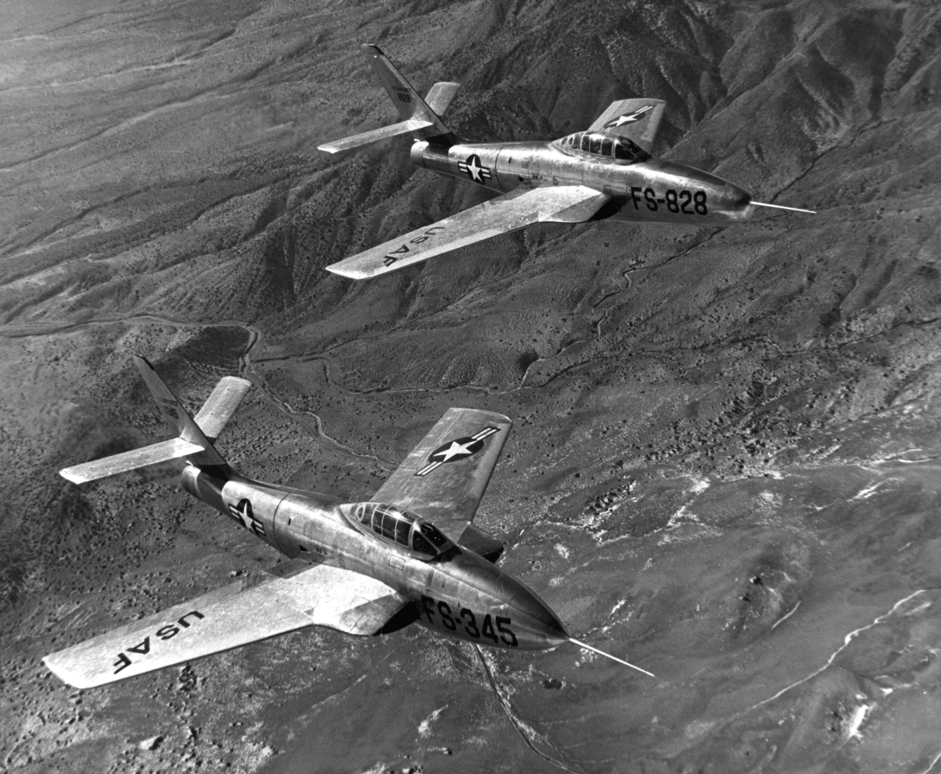 A U.S. Air Force Republic YF-84F-RE Thunderstreak (s/n 51-1345, foreground) and an YRF-84F-RE Thunderflash (s/n 51-1828) in flight near Edwards Air Force Base, California (USA).